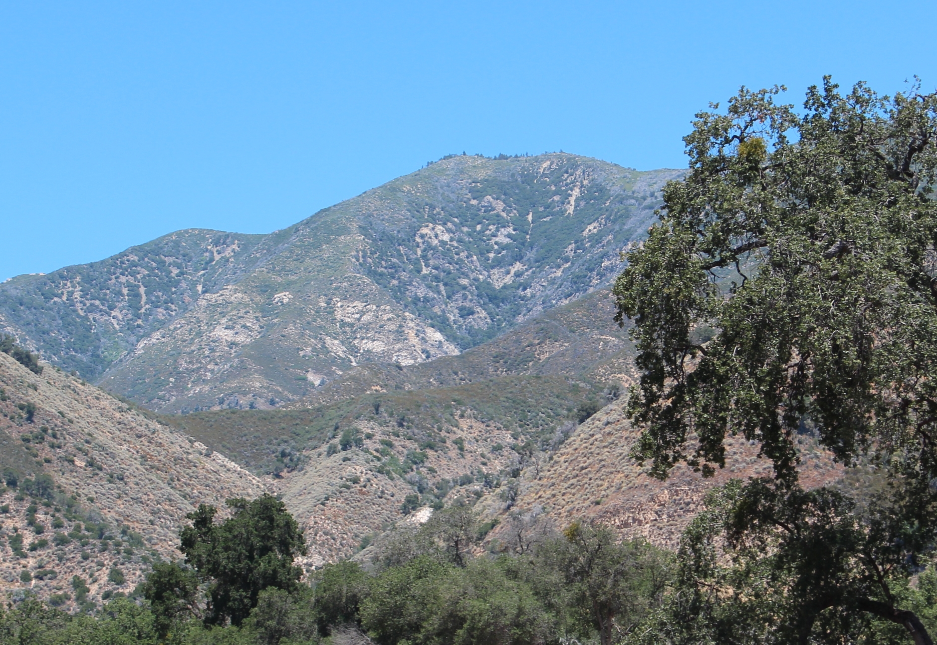 Junipero Serra Peak, viewed from the Santa Lucia Memorial Park Campground